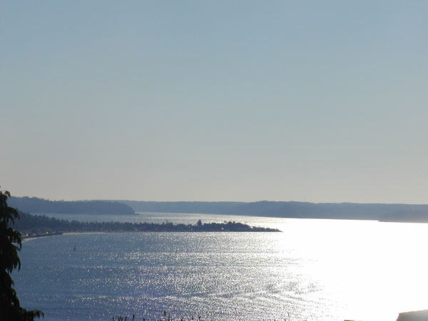 Elliott Bay and West Seattle from Queen Anne Hill, Seattle, Washington, USA.